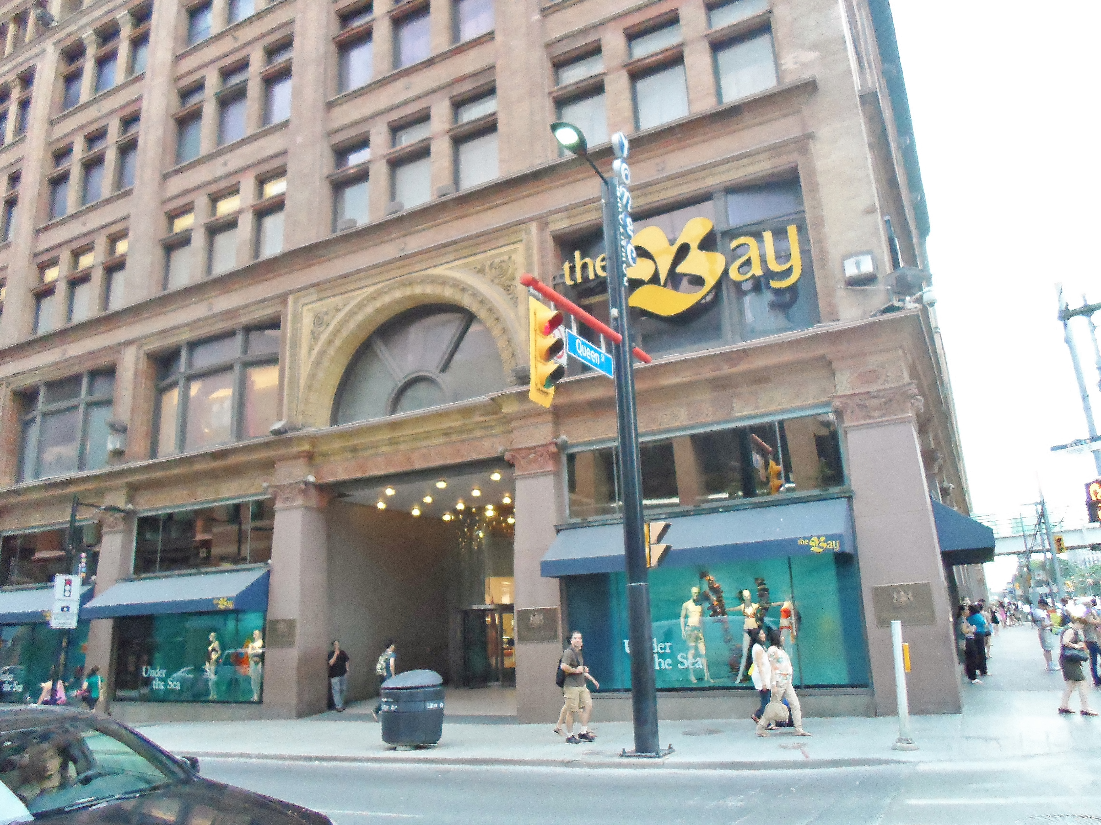 Department store The Bay Queen Street in Toronto, Canada. View from corner of Younge Street and Richmond Street East.